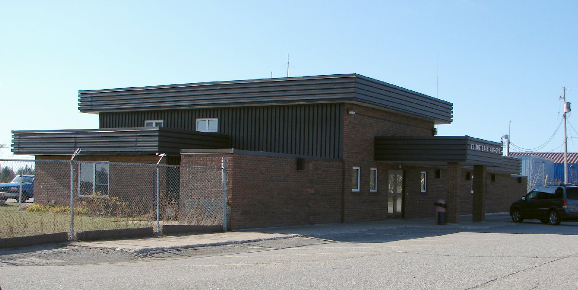 Airport building of Elliot Lake, Ontario, Canada